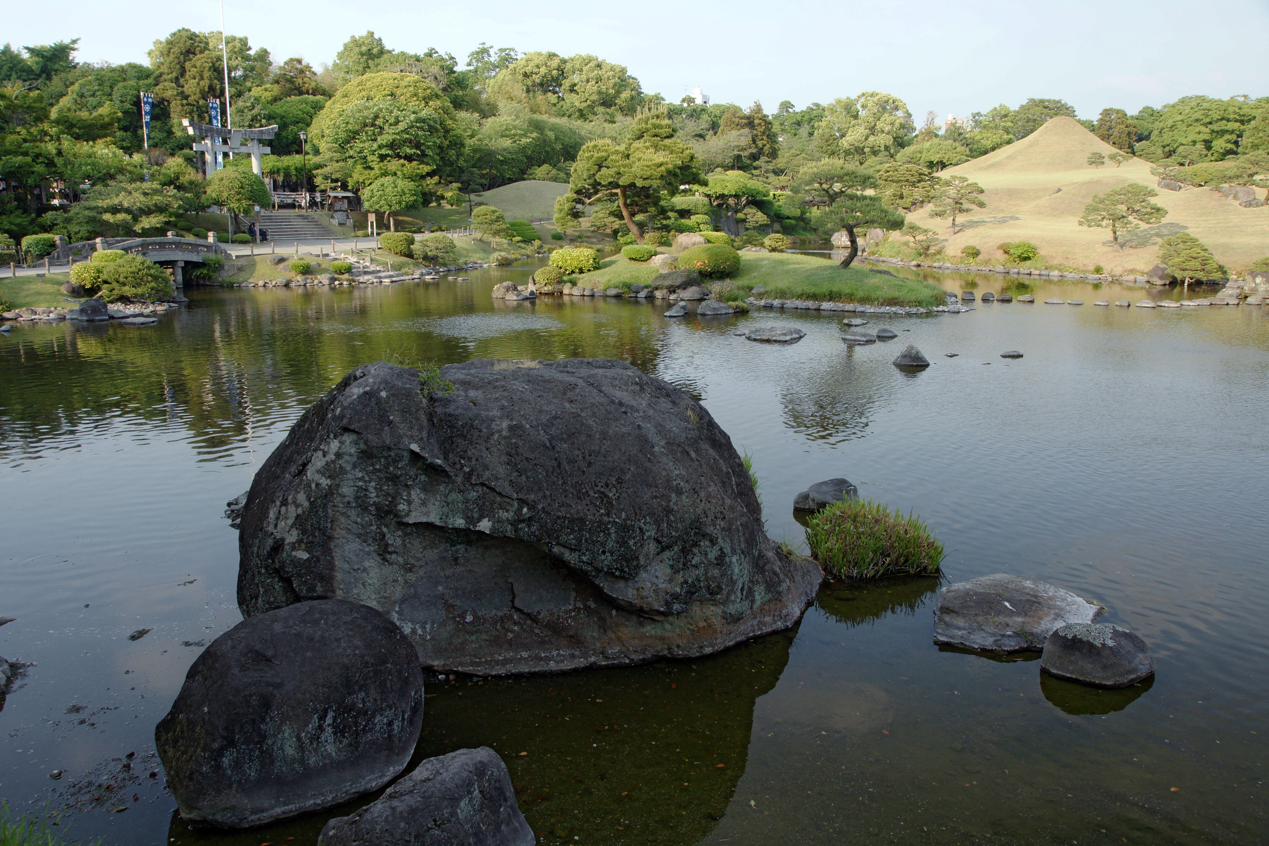 Suizenji-jojuen, Kumamoto, Kumamoto prefecture, Japan